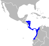 Cebus capucinus range map